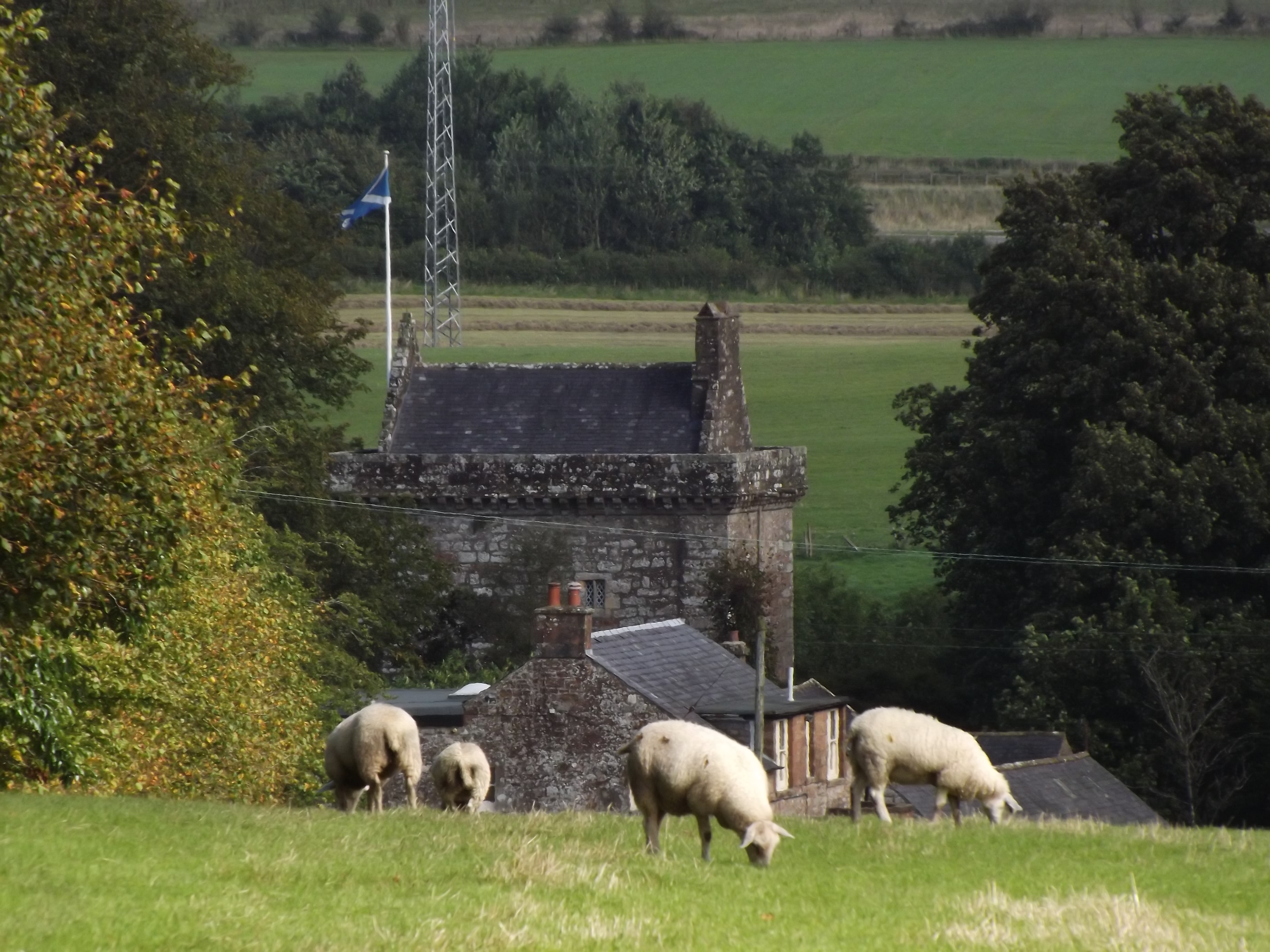 Bonshaw Tower House, a peel tower and seat of the Irvings, standing by the Kirtle Water.